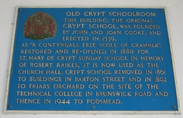 Plaque on Old Crypt Schoolroom. This plaque is mounted on the wall of the old schoolroom 61705 under the archway over St Mary's Lane (also known as Marylebone).